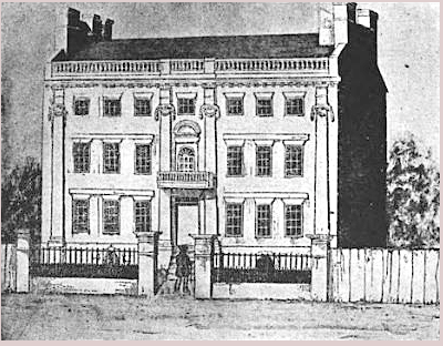 Foster Hutchinson House, Boston, Massachusetts, c. 1776 (This house was built by John and Abigail Foster (c.1689). Their daughter lived in the house with her husband Thomas Hutchinson Sr.. Their children the future Governor Thomas and Judge Foster Hutchinson were born and raised in the house. Governor Thomas Hutchinson lived in the home at the time of the Revolution.)